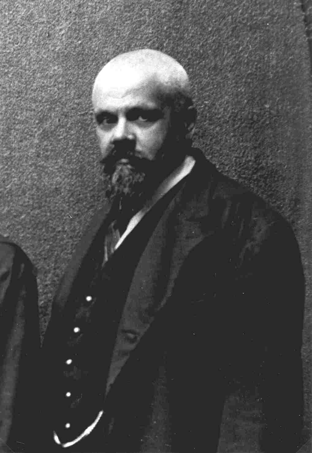 Giuseppe Chini between 1920 and 1929